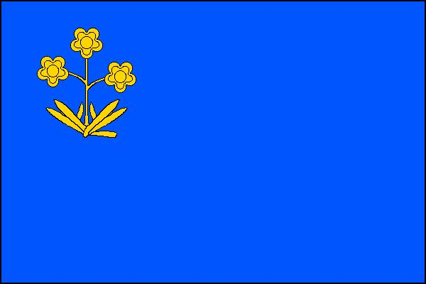 Flag of the village of Jevišovka, Czech Republic.